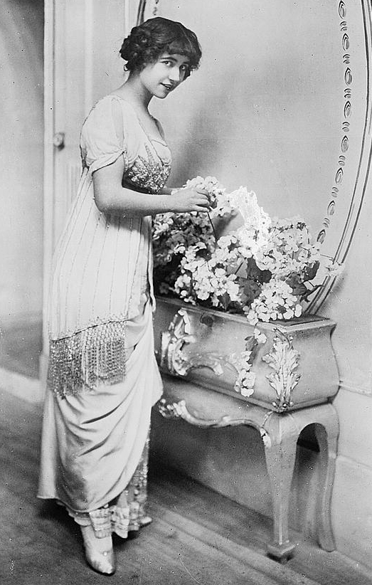 French singer and actress Yvonne Arnaud (1892-1958)